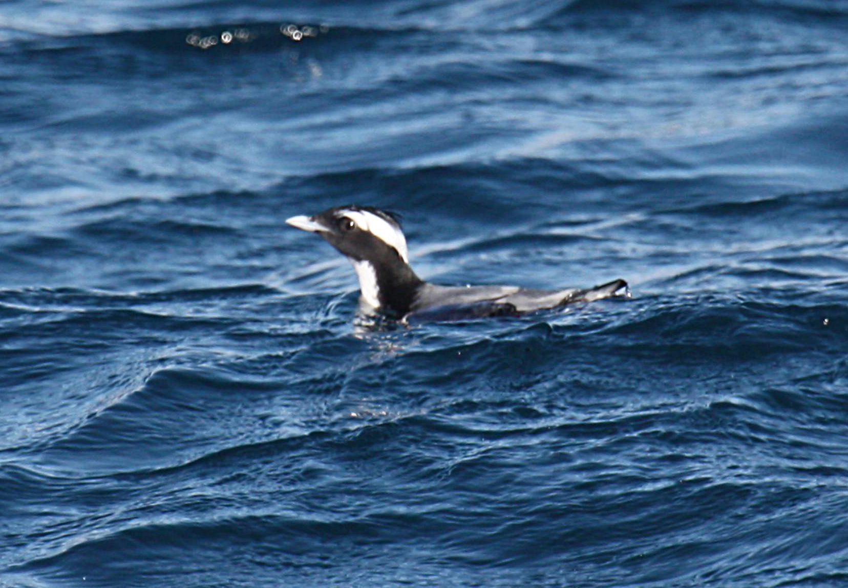 A Japanese Murrelet swimming in Japan.